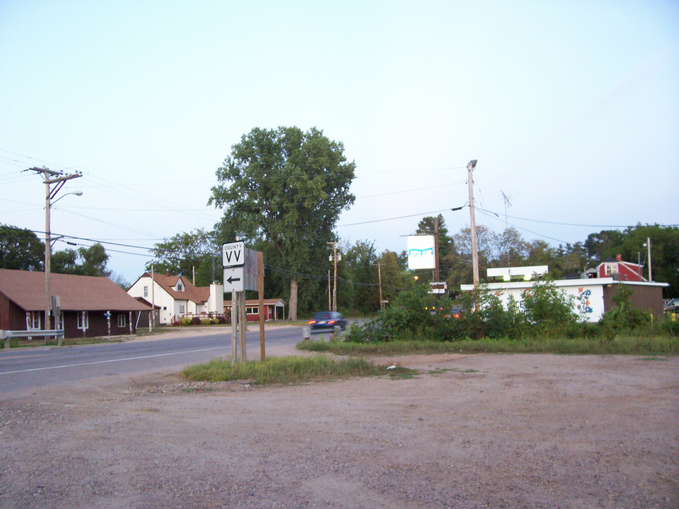 Downtown Keshena, Wisconsin on Wisconsin Highway 55.